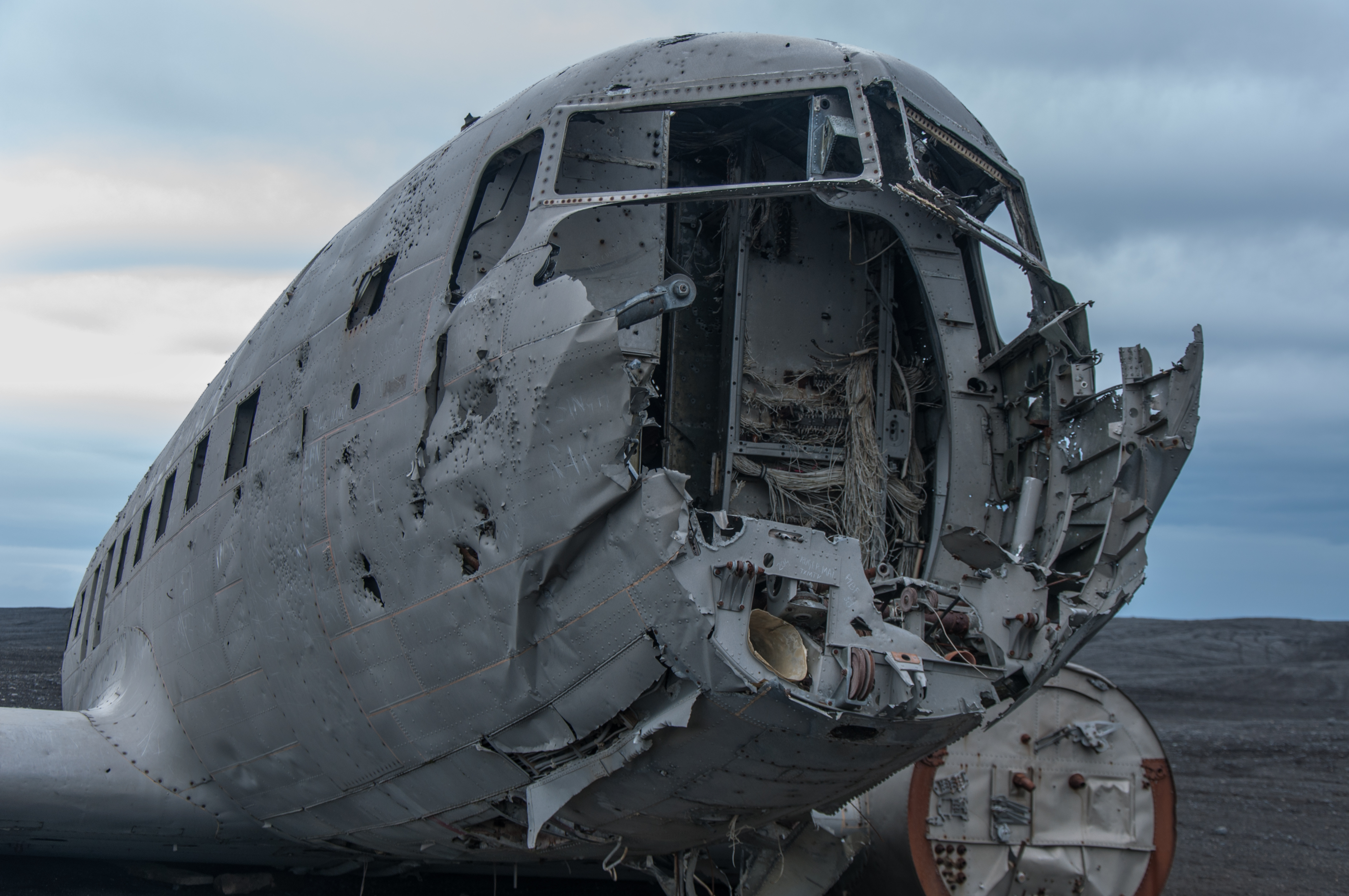 Iceland, wreck of a Douglas R4D-8 (Super DC-3) of the U.S. Navy. The plane carried out an emergency landing here on November 21, 1973 because it iced over when passing overhead Mýrdalsjökull. Nobody was injured, but it was impossible to remove the wreck. Some sources also say it happened November 24, but this is unlikely as Morgunblaðið reported the accident on November 22.